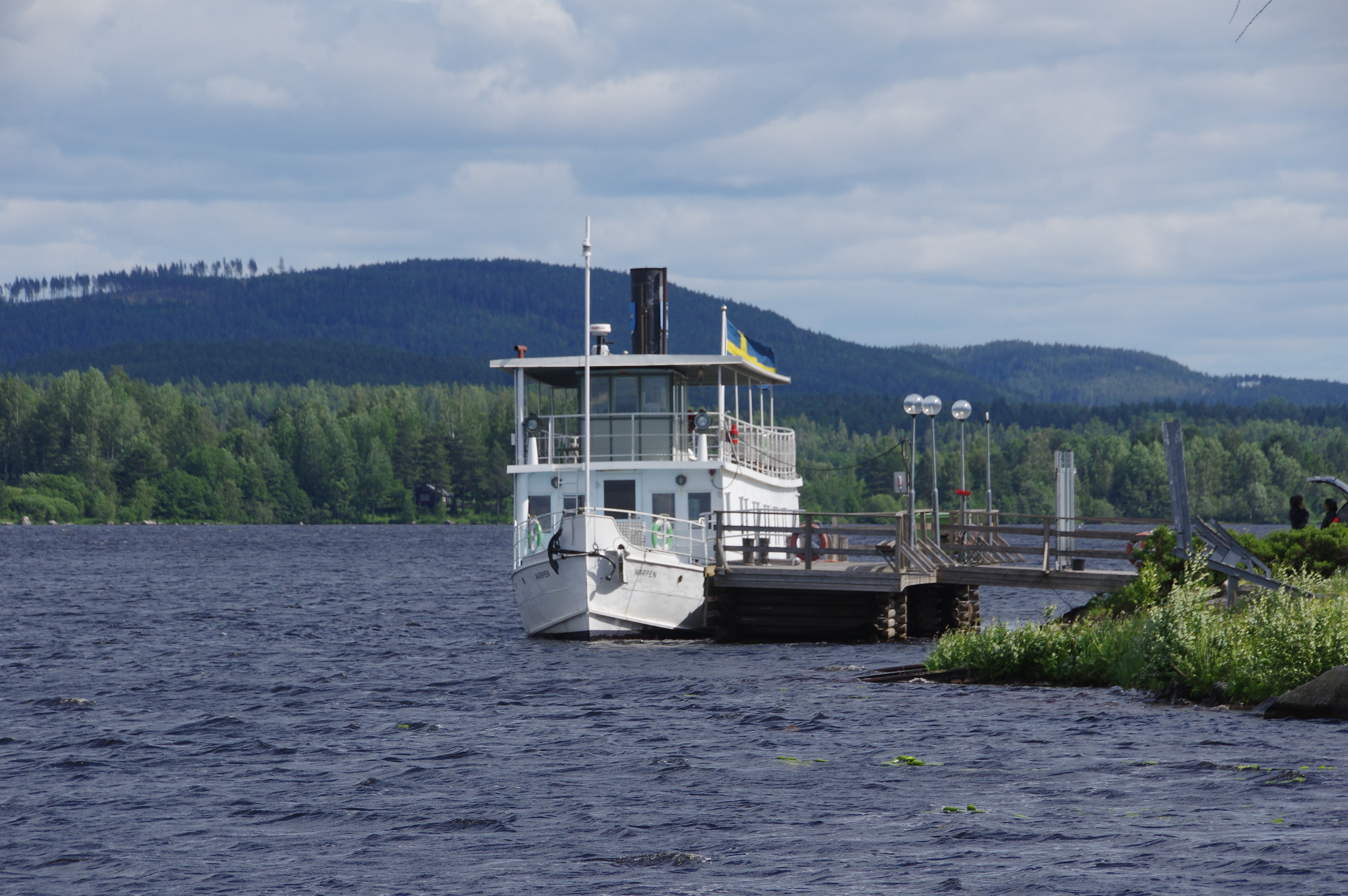 The steamboat SS Warpen is registered in Bollnäs.